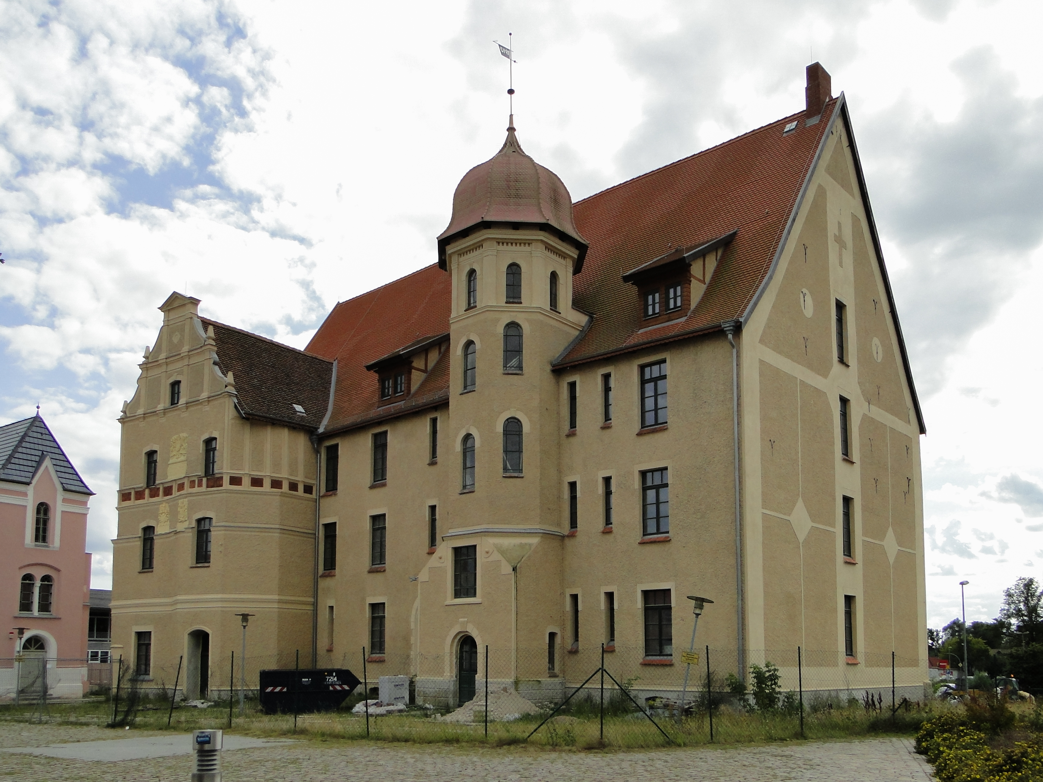 Castle in Bützow, district Rostock, Mecklenburg-Vorpommern, Deutschland